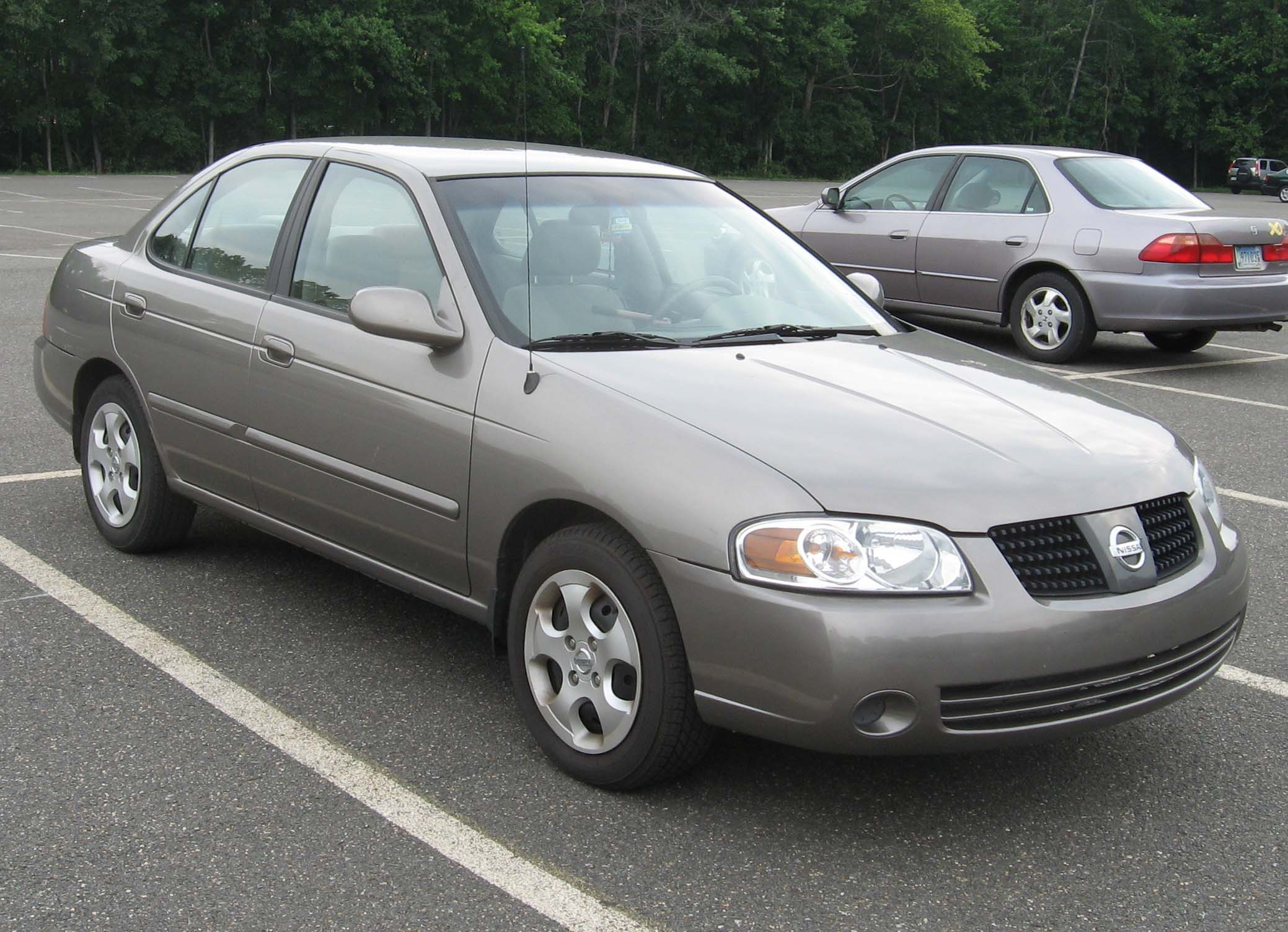 2004-2006 Nissan Sentra photographed in USA.